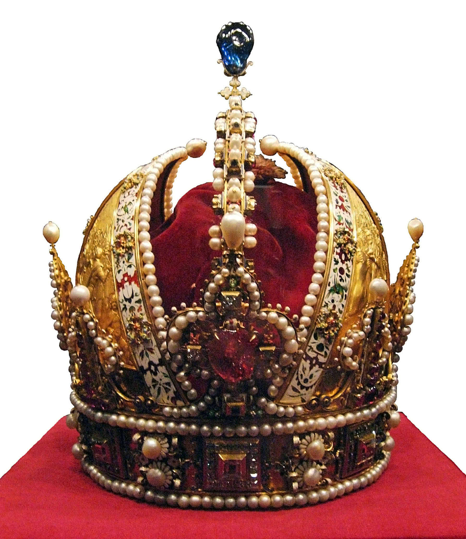 The Crown of Rudolf II, later Crown of the Austrian Empire Jan Vermeyen Prague, 1602 Gold, partially enamelled, diamonds, rubies, spinel rubies, sapphire, pearls, velvet H 28.3 cm, circlet 22.4 cm in diameter (with pearls), largest span (over the fleurs-de-lis on the brow and neck) 27.8 cm SK Inv. No. XIa 1